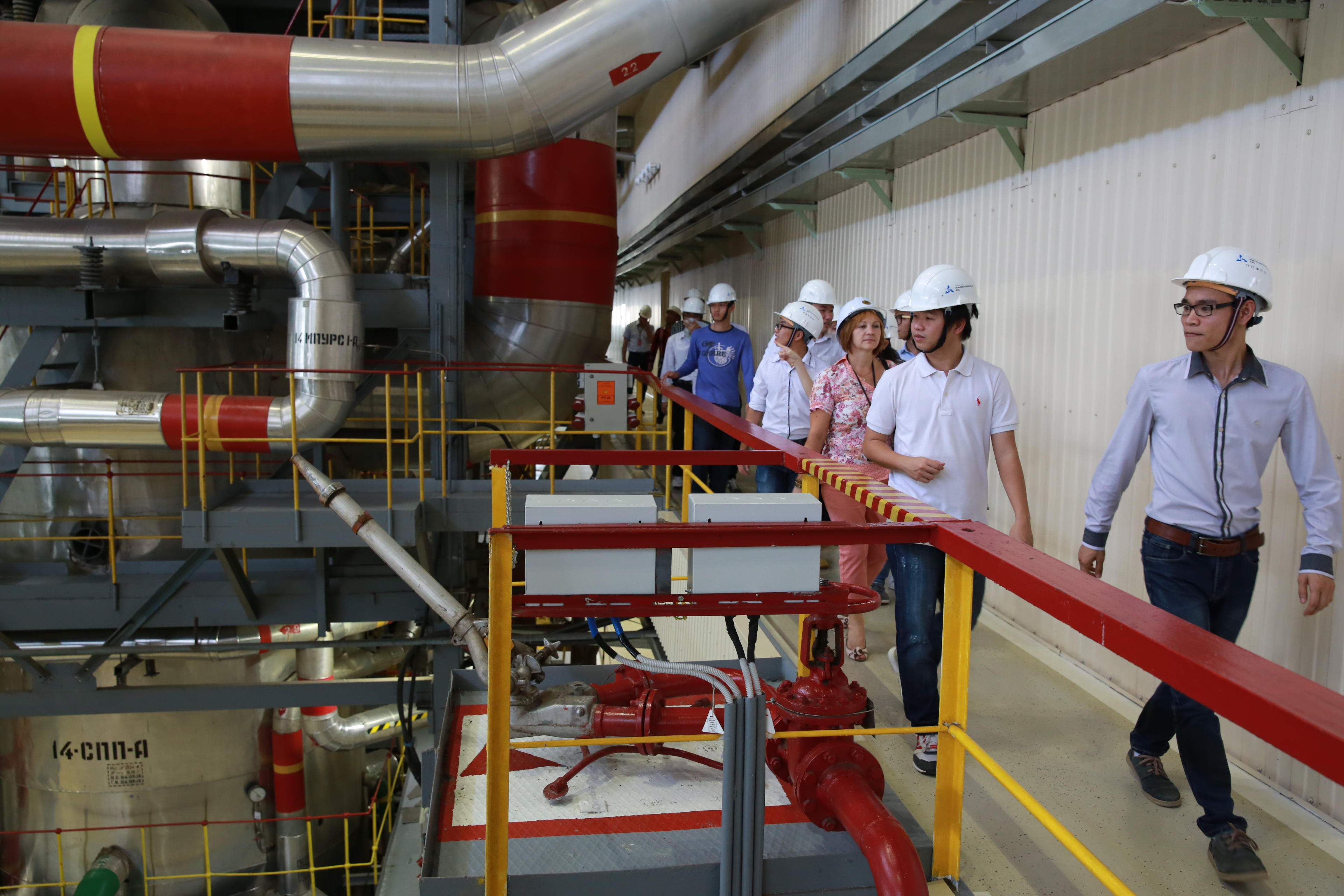 Students visit the Novovoronezh nuclear power plant